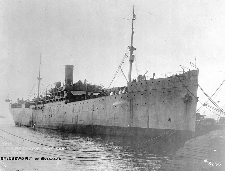 The U.S. Navy repair ship USS Bridgeport (ID 3009) at New York City (USA), on 1 October 1917. She was previously the German merchant steamer Breslau, and was seized at New Orleans when the United States entered World War I. After being turned over to the U.S. Navy, she was renamed Bridgeport on 9 June 1917, and was placed in commission on 25 August 1917.